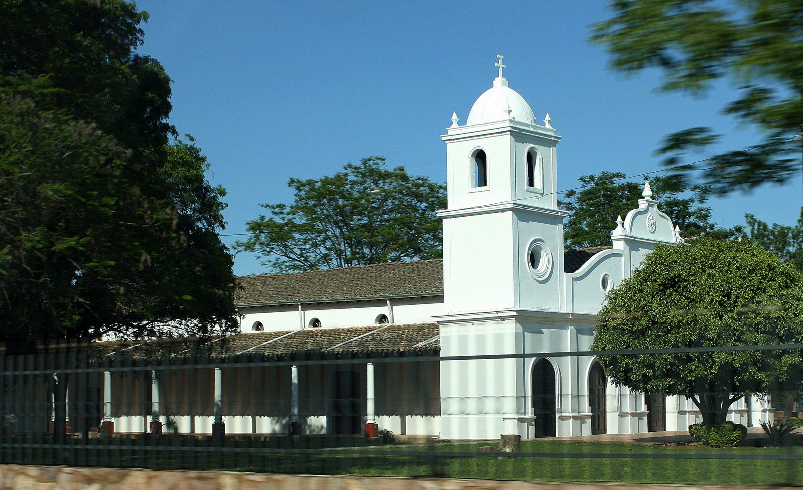 Church of the town of San Roque González de Santacruz.